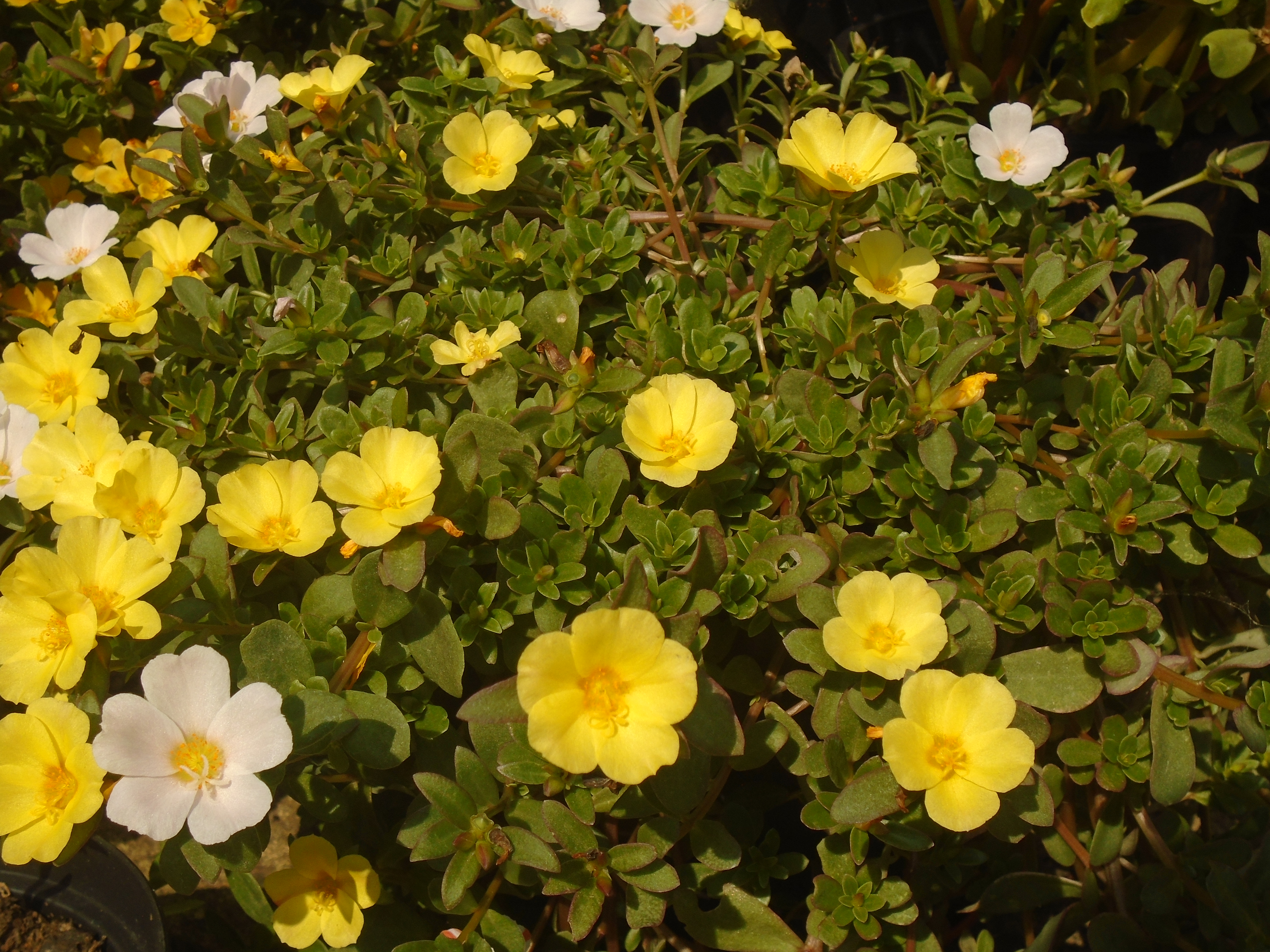 Portulaca umbraticola subsp umbraticola